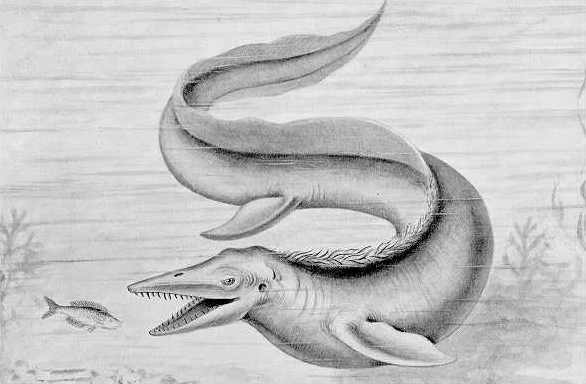 Mosasaurus